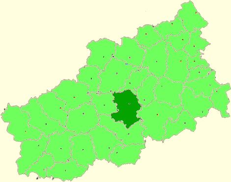 Tver Oblast map by Al Silonov